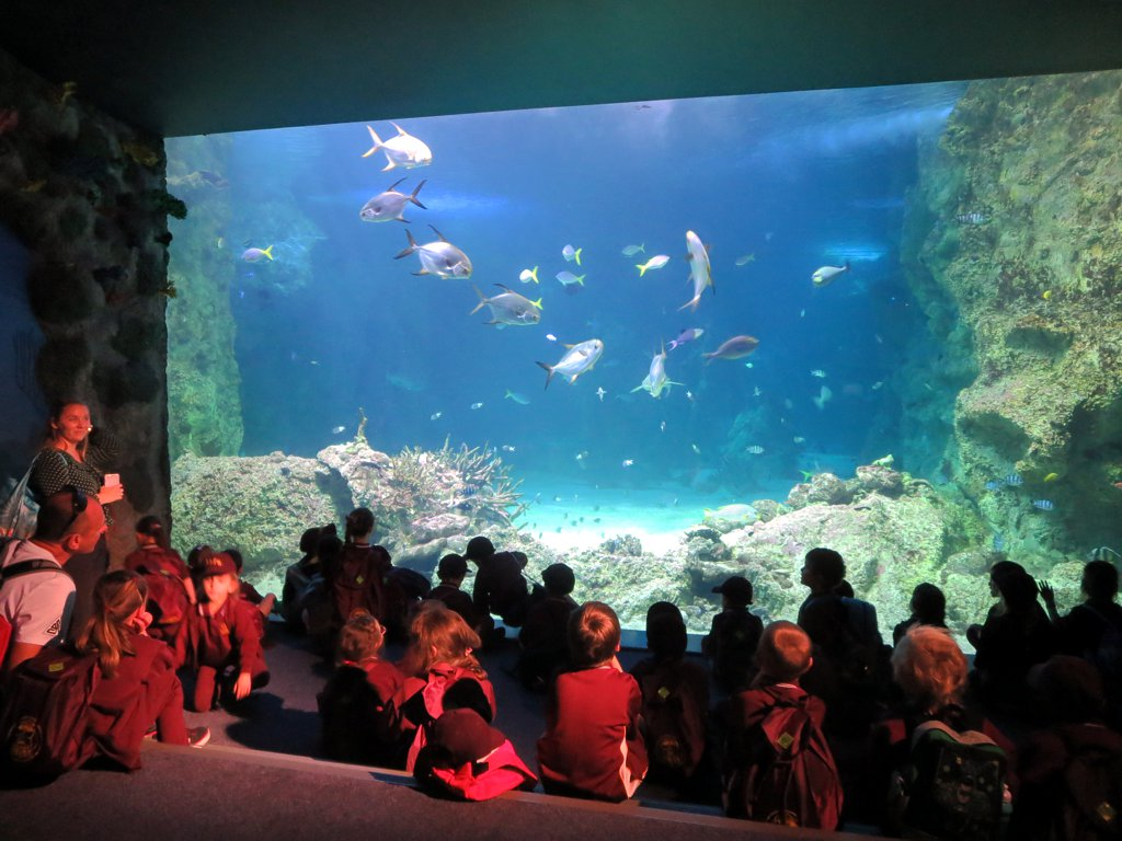 The Sydney Sea Life Aquarium on Darling Harbour in Sydney, Australia, is popular among school groups.